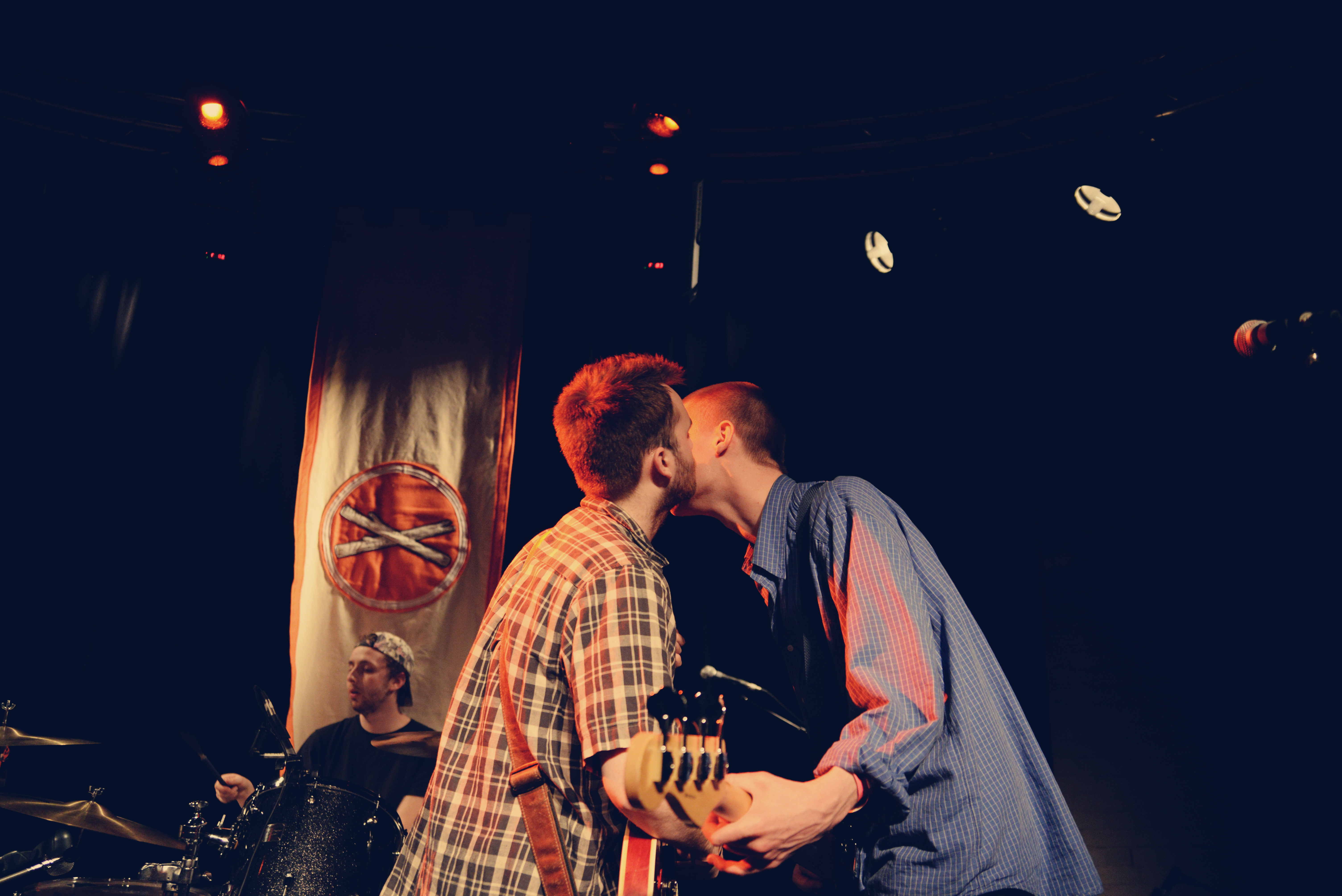 Happyness-Linen Building-Treefort2015-Credit-Kasey Elliott